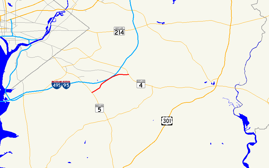 Map of Maryland Route 337